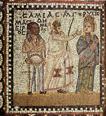 Illustration of a scene from act 4 of Menander's comedy "Samia" (Woman from Samos), mosaic panel from the dining room of the House of Menander in Mytilene, 3rd century AD (excavators) or later 4th century AD (S. Nervegna).